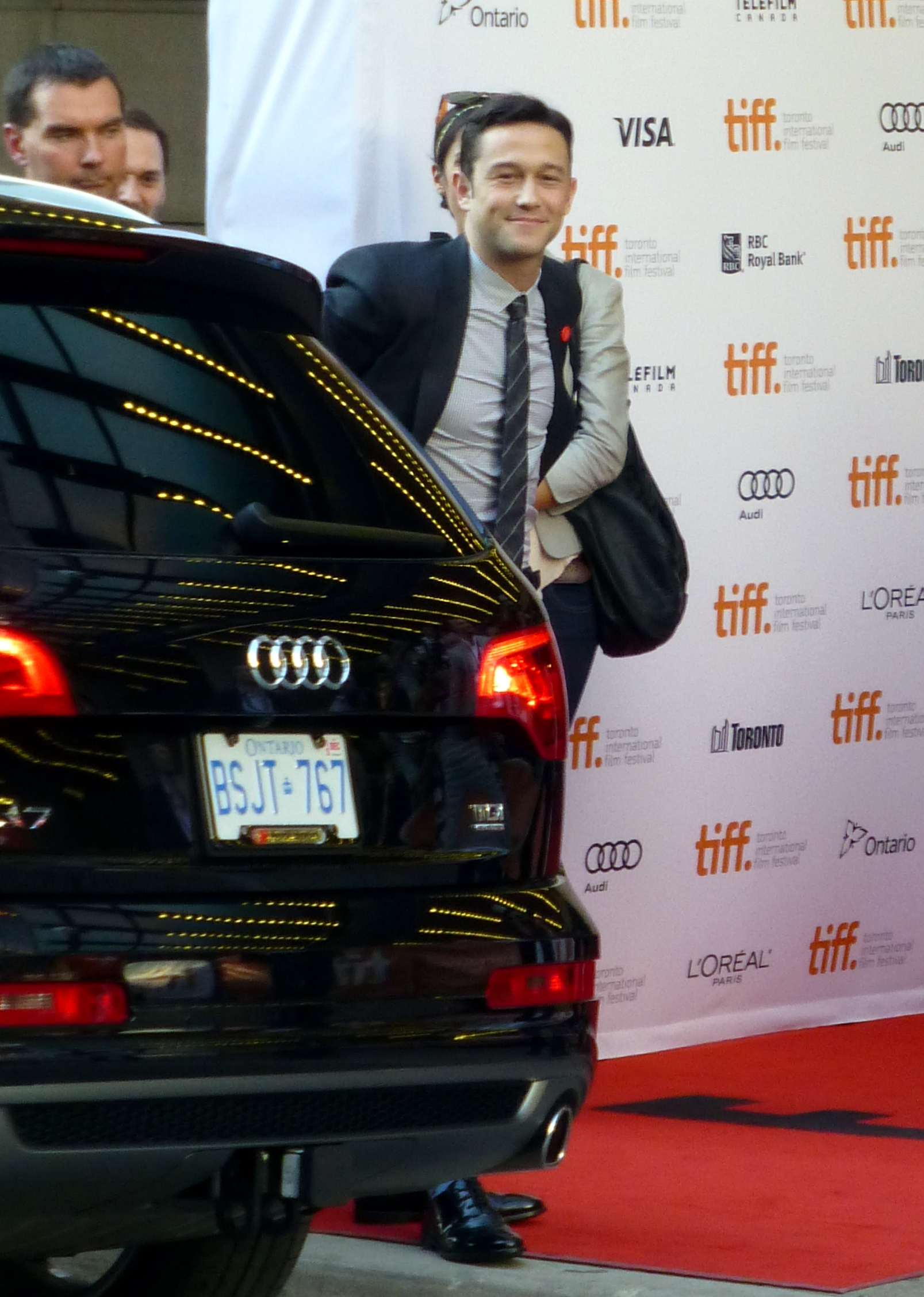 Joseph Gordon-Levitt at the Premiere of Don Jon, 2013 Toronto Film Festival